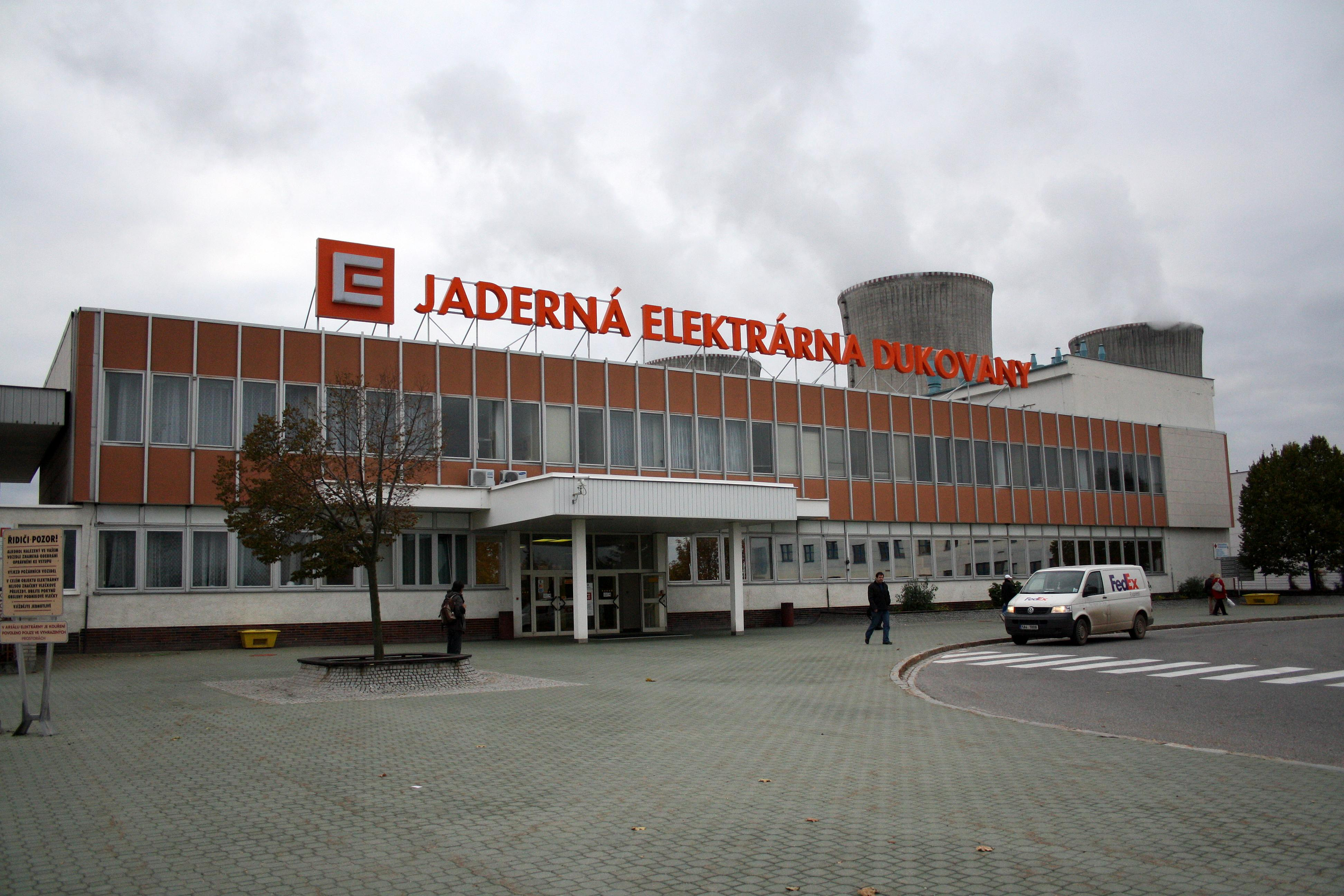 Main entrance of Dukovany Nuclear Power Station.